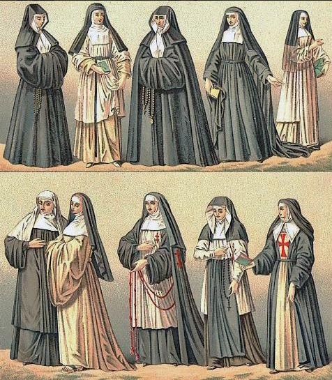 16th Century French Nuns praying in a convent wearing traditional black and white clothing. Nuns dressed very conservatively making sure to cover themselves head to toe. They dressed this way to rid themselves from vanity and sin.